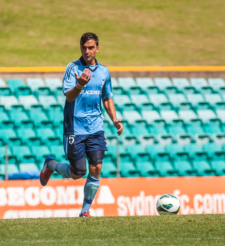 Daniel Petkovski playing for the Sydney FC youth team against the Newcastle Jets youth team in 2012.